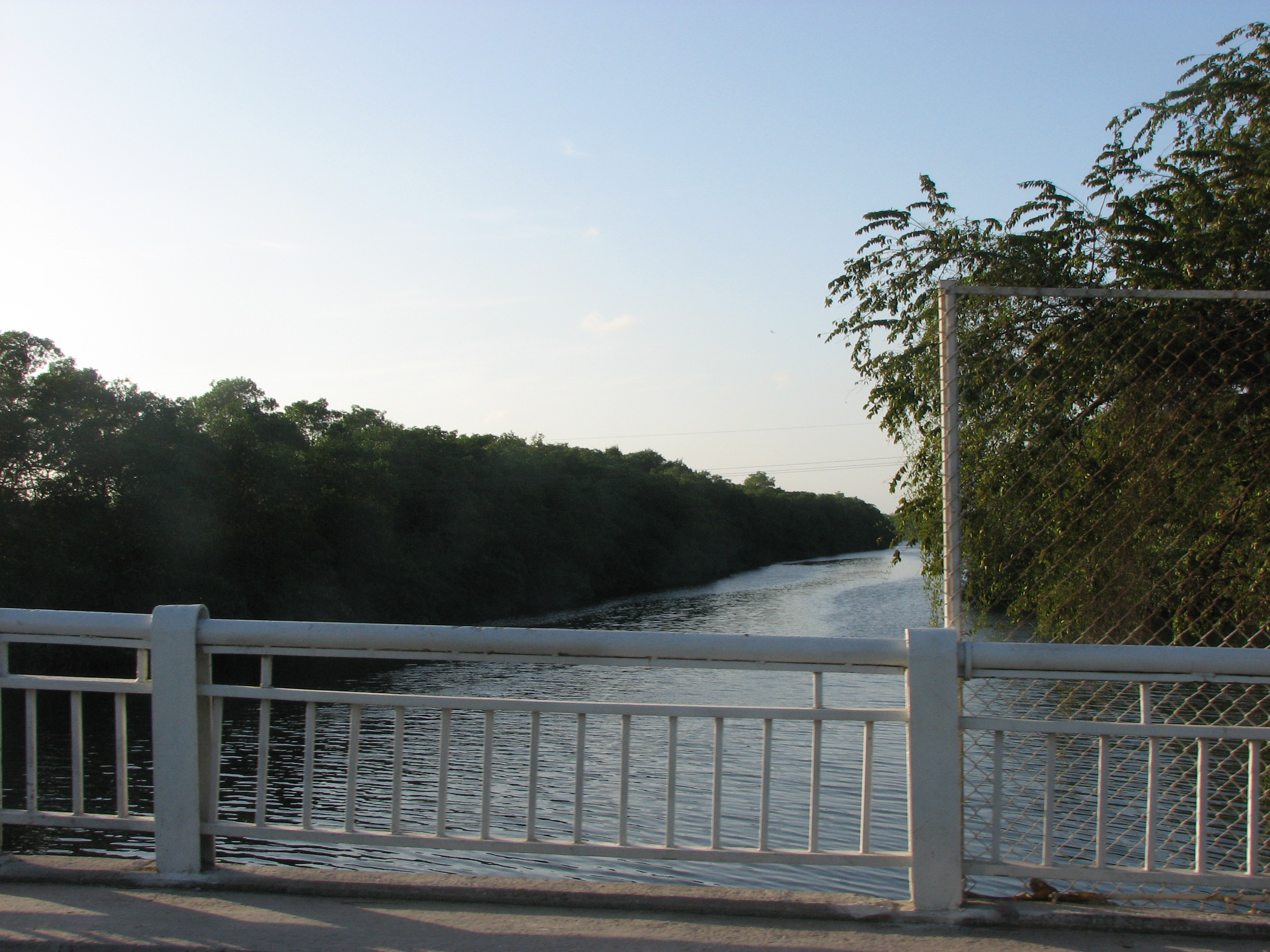 El Río Hondo separa a México de Belice./The Rio Hondo border of Mexico with Belize